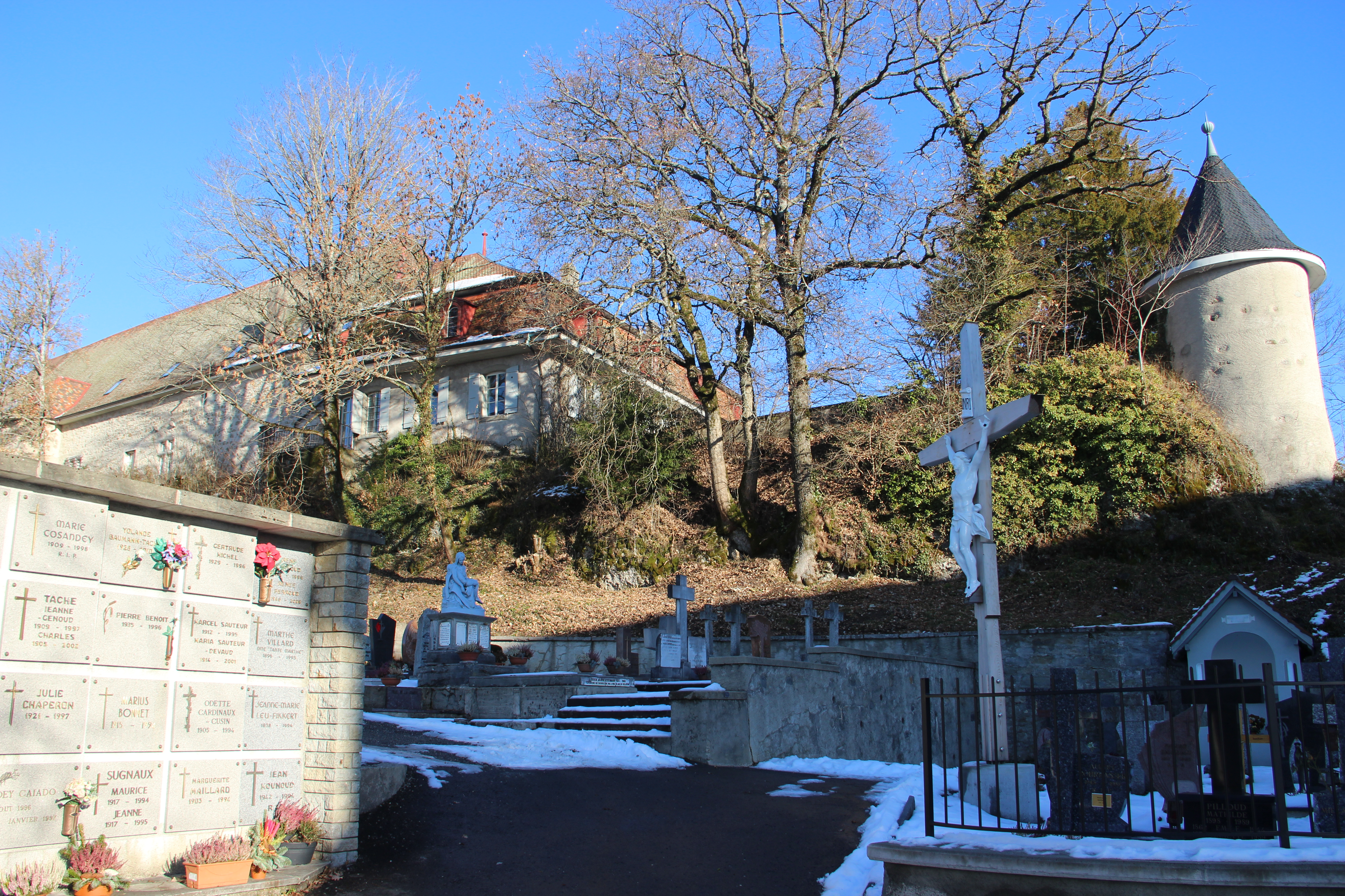 Château of Châtel-Saint-Denis